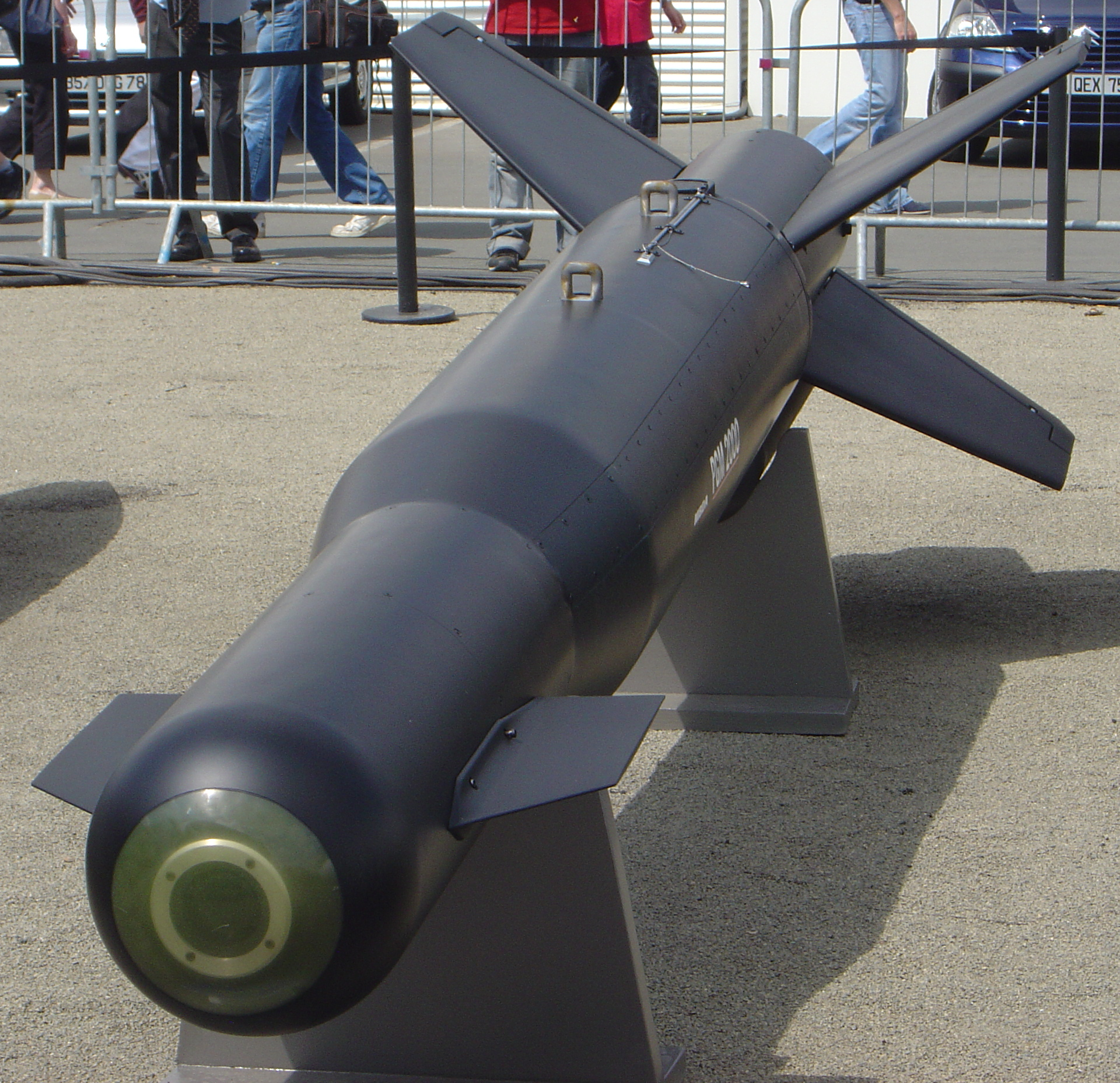 MBDA PGM-2000. Paris Air Show, 2005